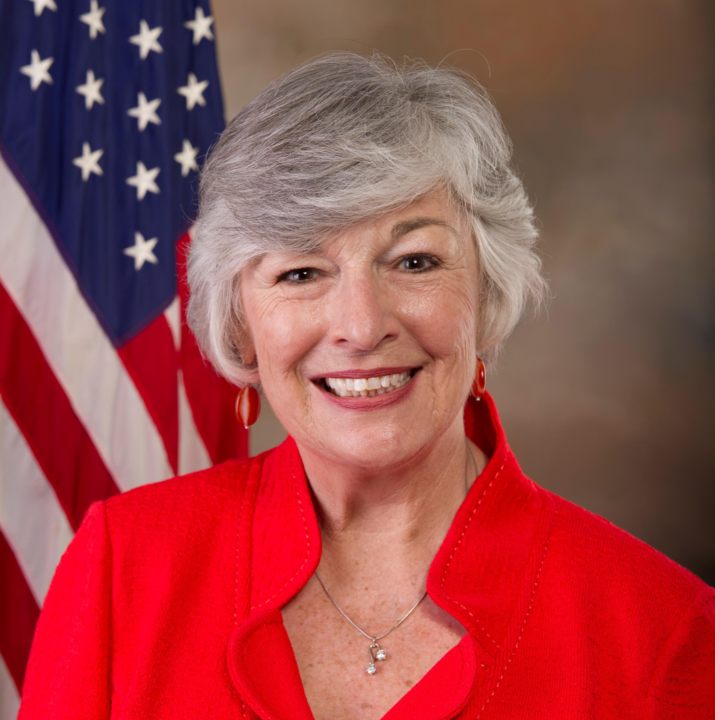 Official portrait of Lynn Woolsey.